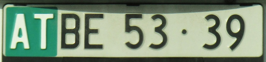 Swiss diplomatic license plate for Administration and technical staff, 39=Italy